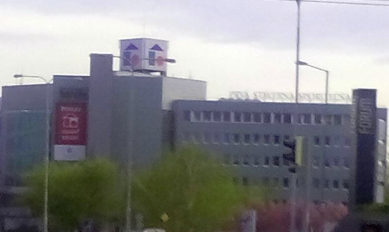 Building of Prvá stavebná sporiteľňa in Bratislava